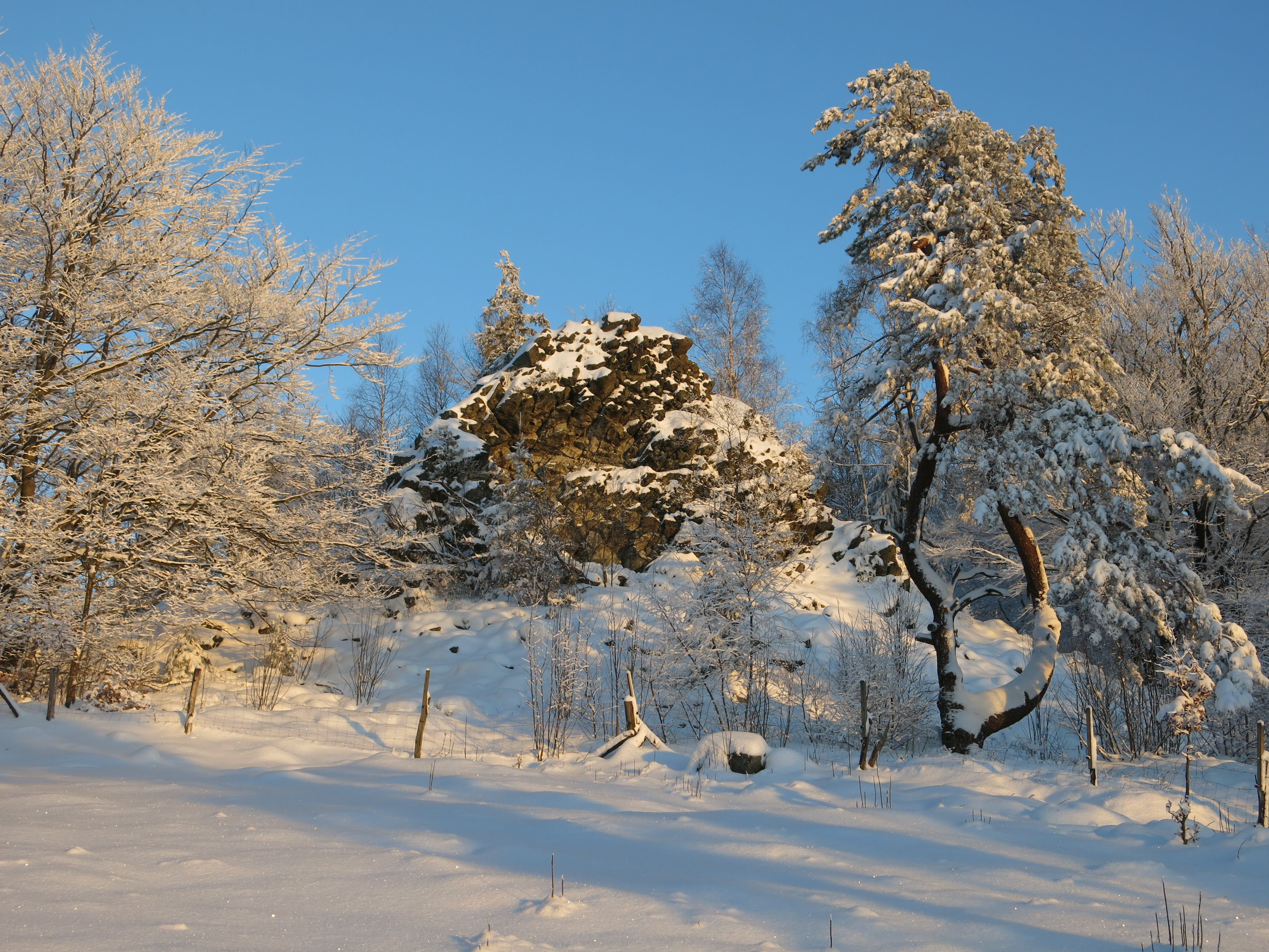 Phonolith-Rock on Teufelstein in the Rhön Mountains